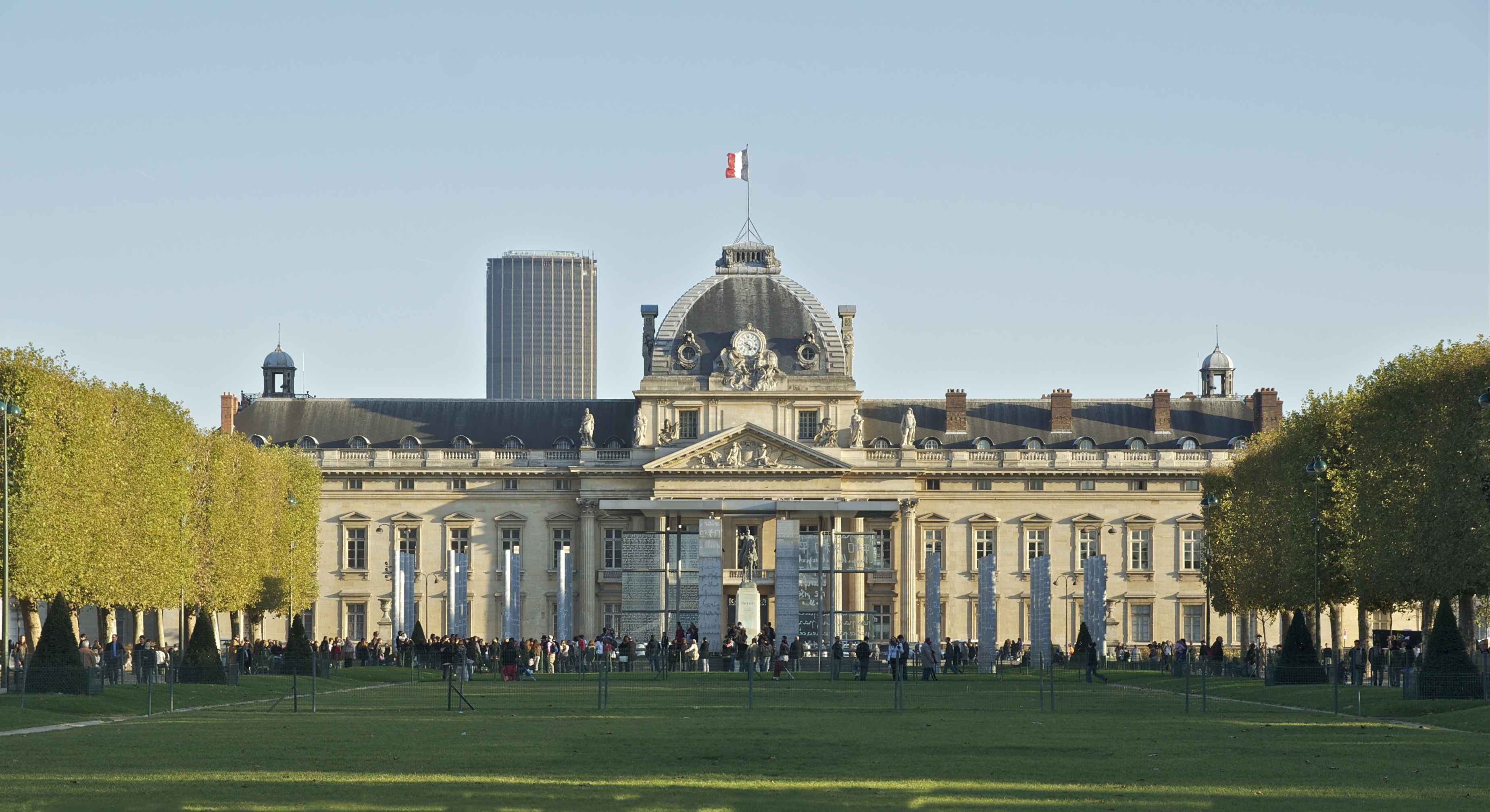 The Ecole Militaire in Paris, from Champ-de-Mars.